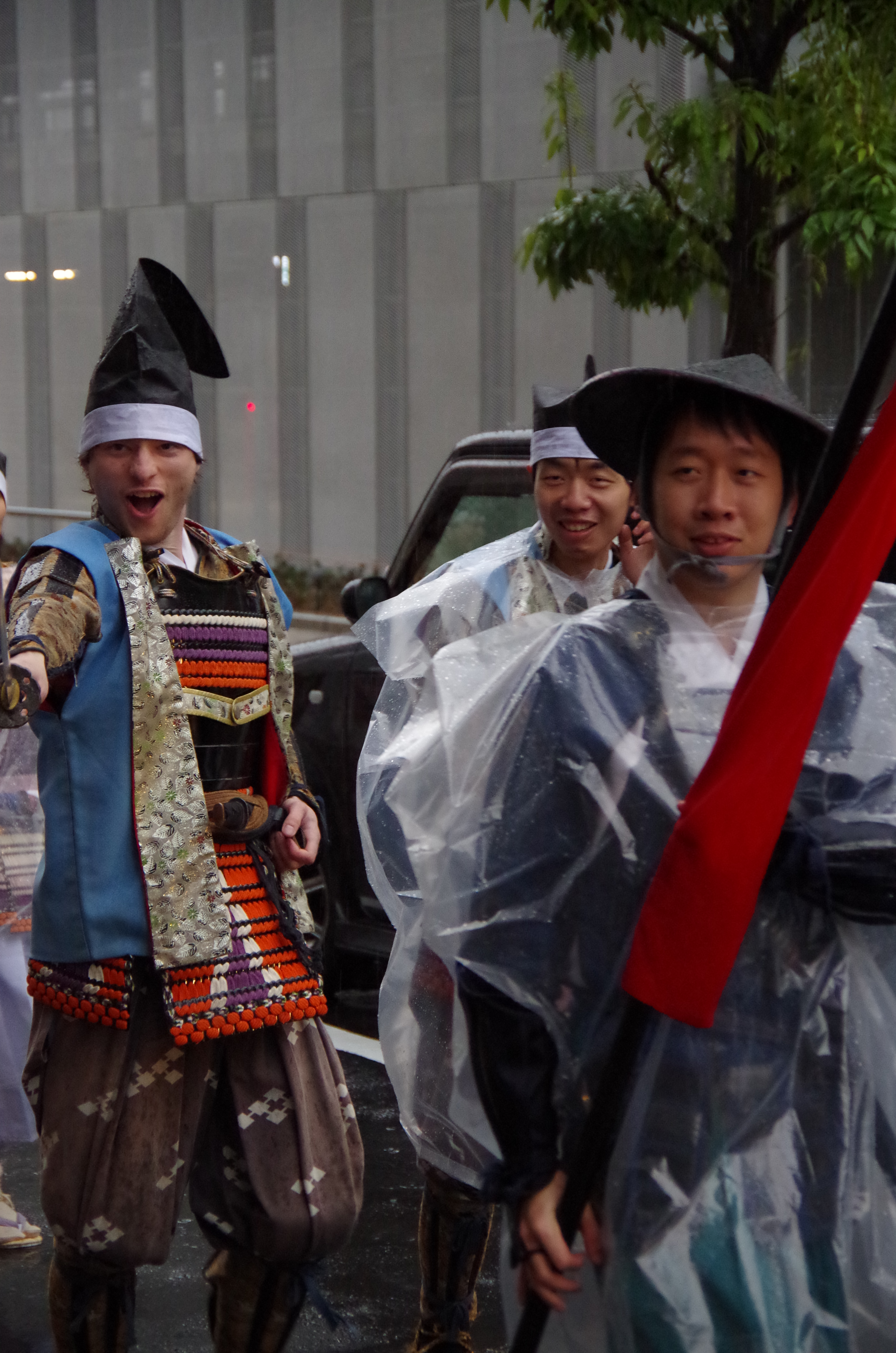 Exchange students of Yamanashi University at the Parade